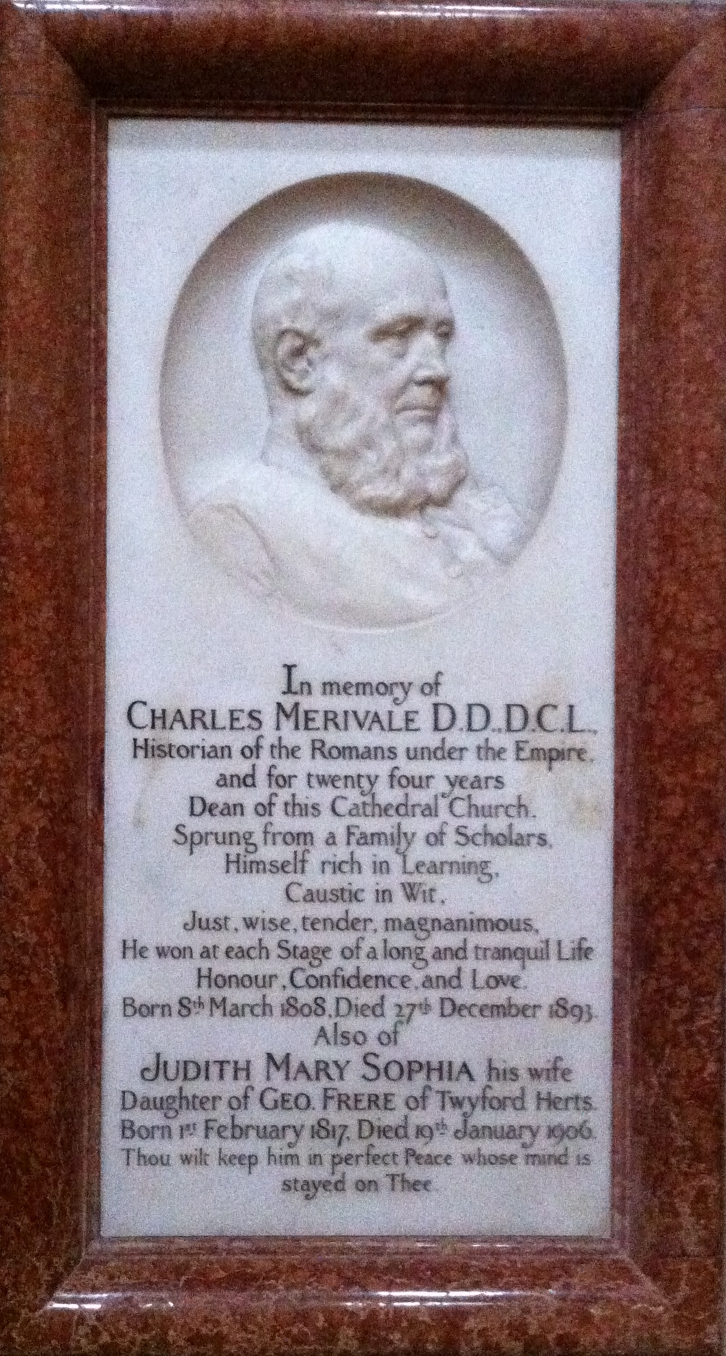 Charles Merivale D.D., D.C.L., Historian of the Romans under the Empire, and for twenty four years Dean of this Cathedral Church. Born 8 March 1808. Died 27 December 1893. Also Judith Mary Sophia, his wife, daughter of Geo. Frere of Twyford, Herts. Born 1 February 1817. Died 19 January 1906.